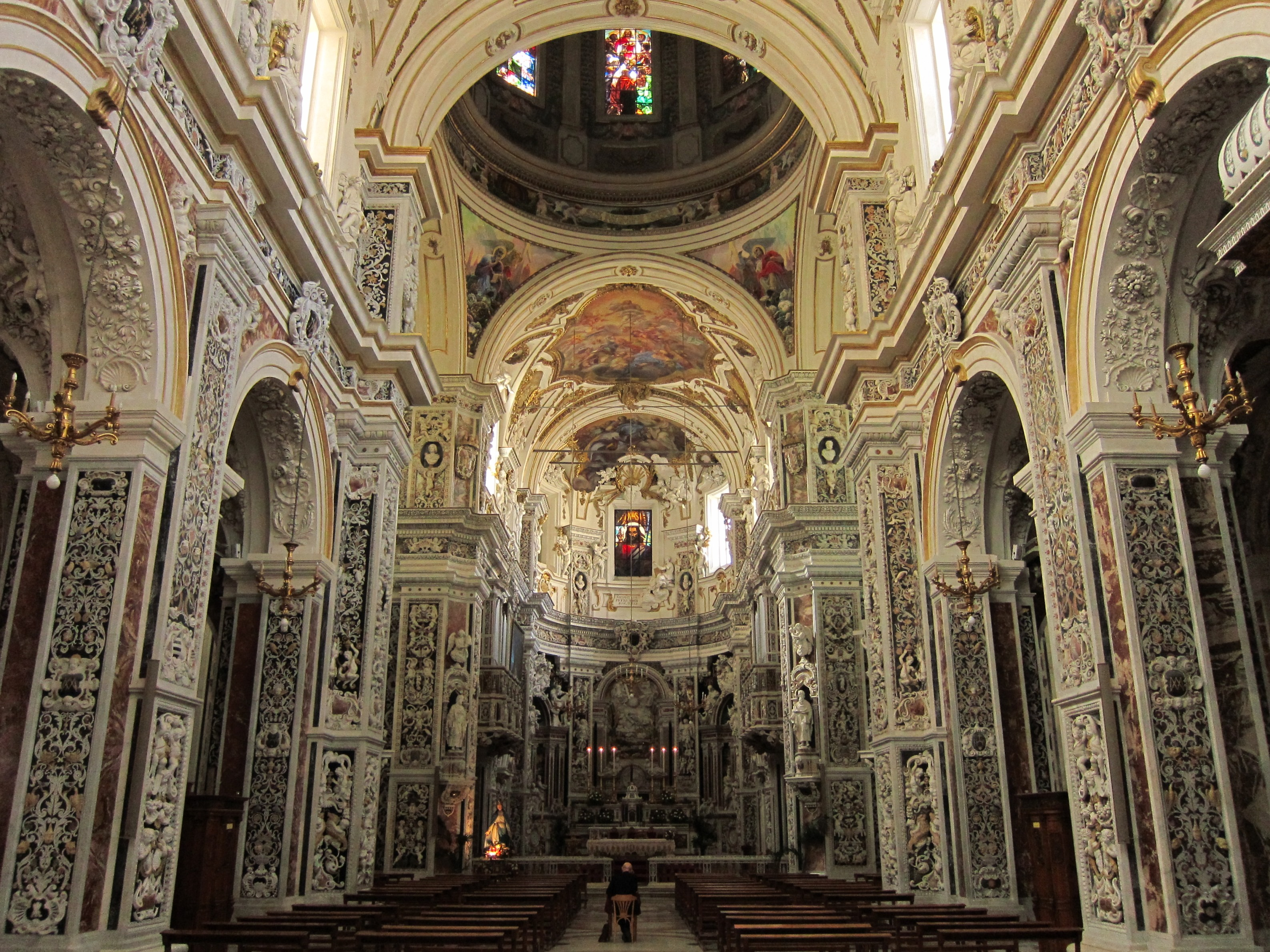 Interior of Chiesa del Gesu, Palermo, nave towards chancel/apse